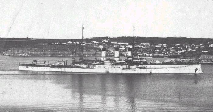 Italian battleship RN Roma at Constantinople 1918 after defeat of Ottoman Empire